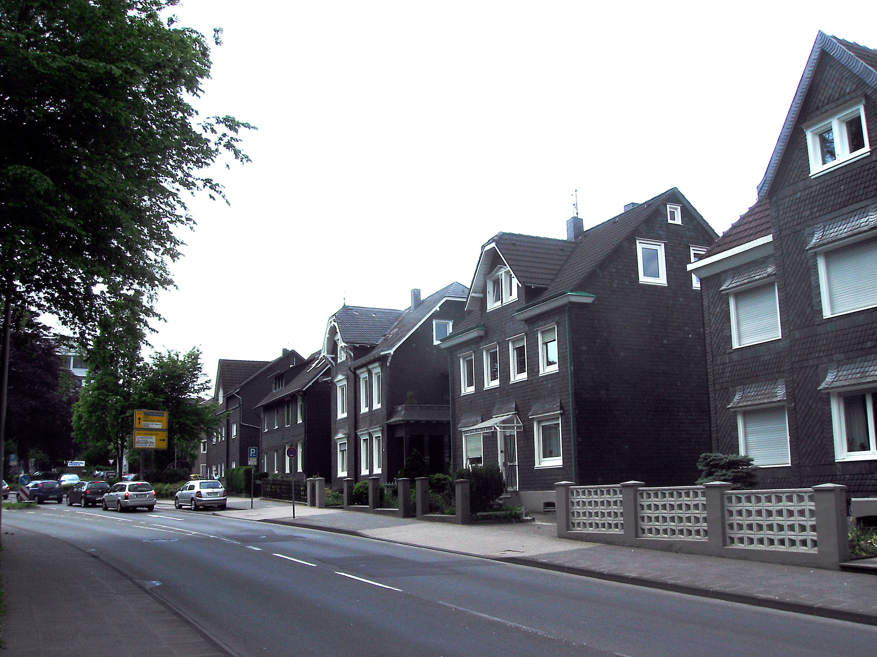 Typical houses in Burscheid, Germany